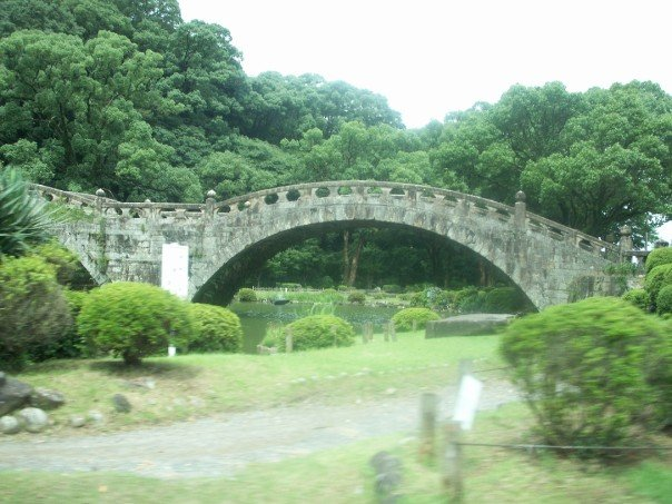 Picture of Isahaya's Megane Bashi